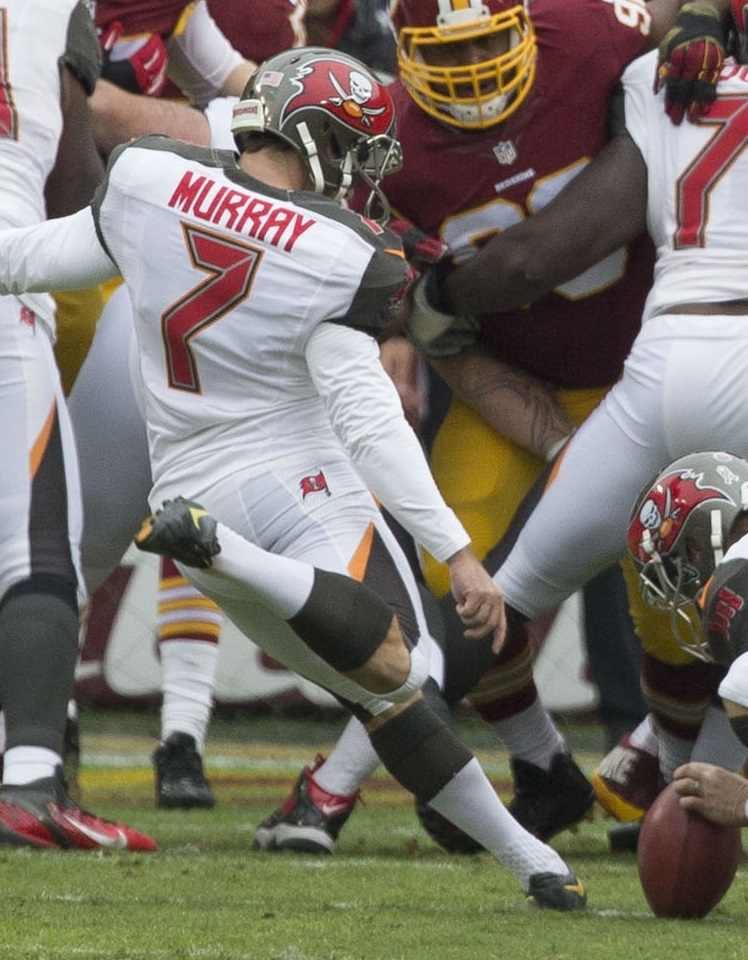 Buccaneers at Redskins 11/16/14